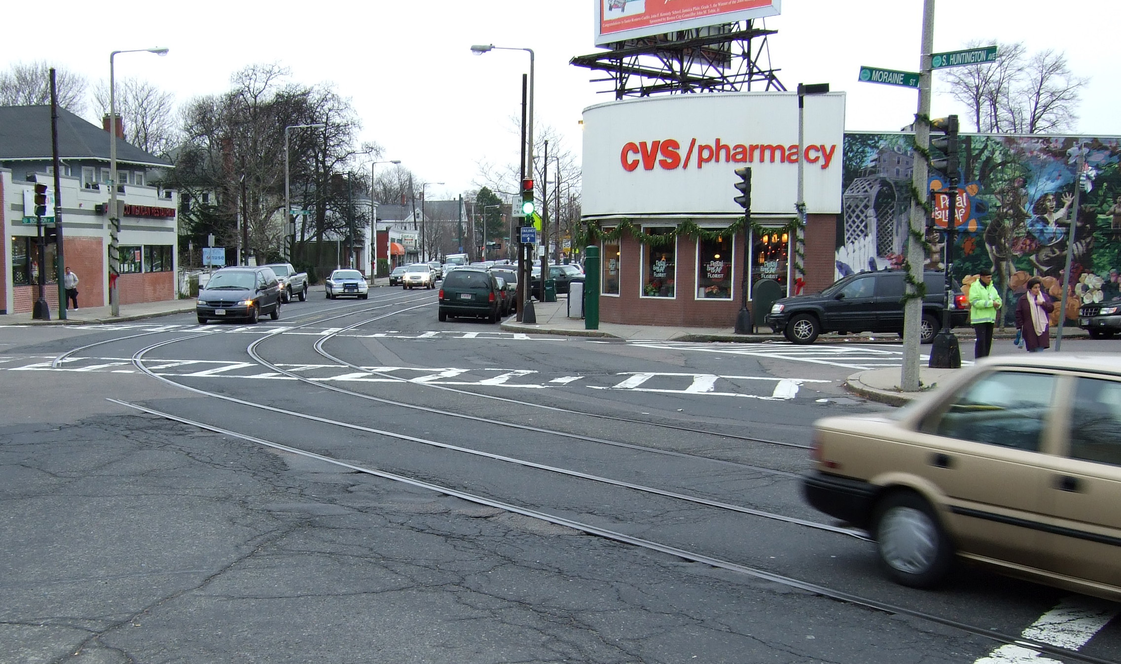 The intersection of Moraine Street and South Huntington Avenue, clearly showing the abandoned streetcar tracks and catenary support poles that formerly served the Green Line "E" Branch (Arborway Line)